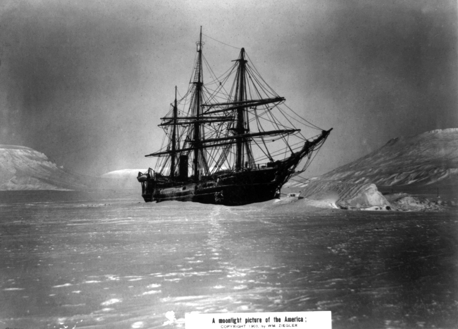 The America, the ship used in the Ziegler Polar Expedition.